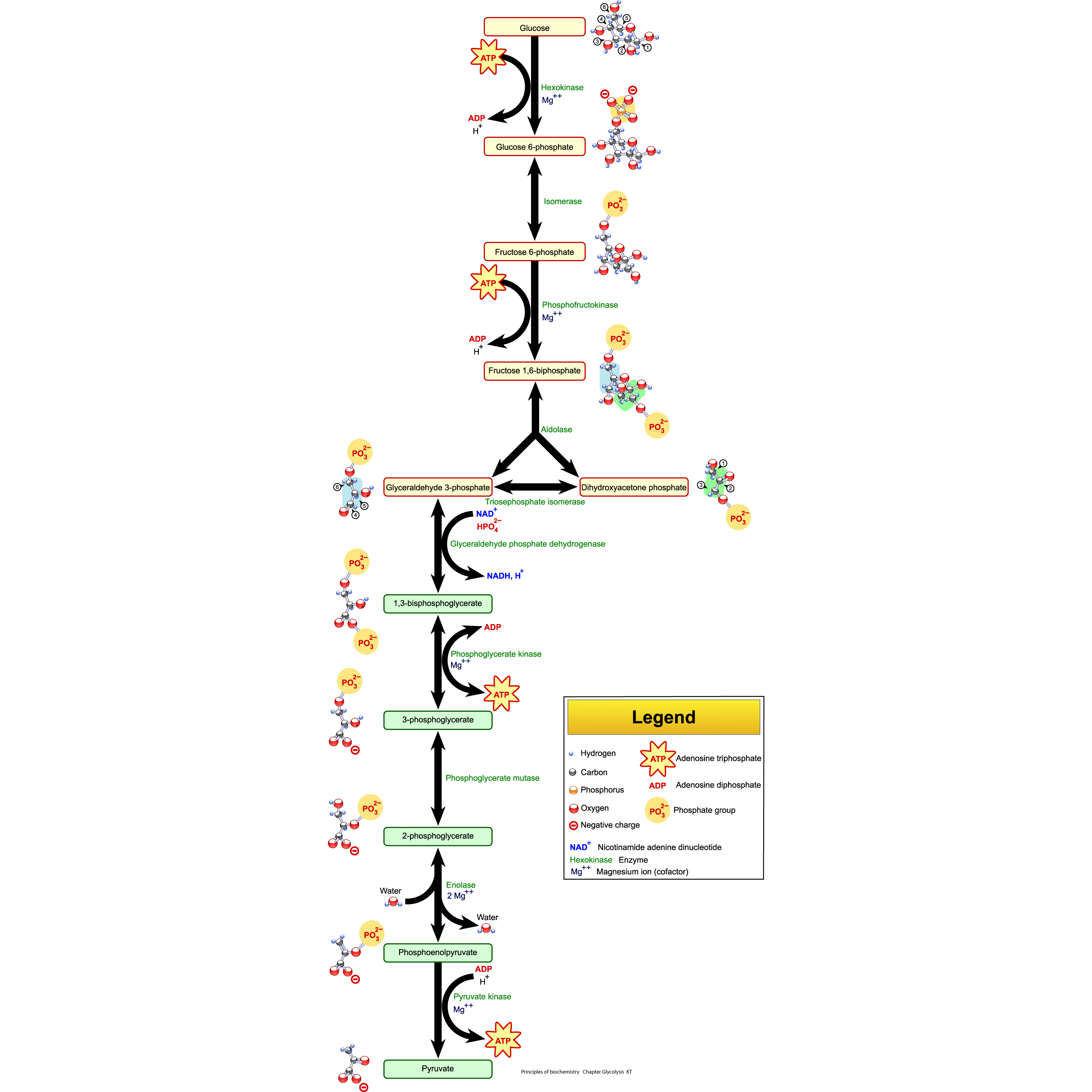 Glycolysis pathway overview.